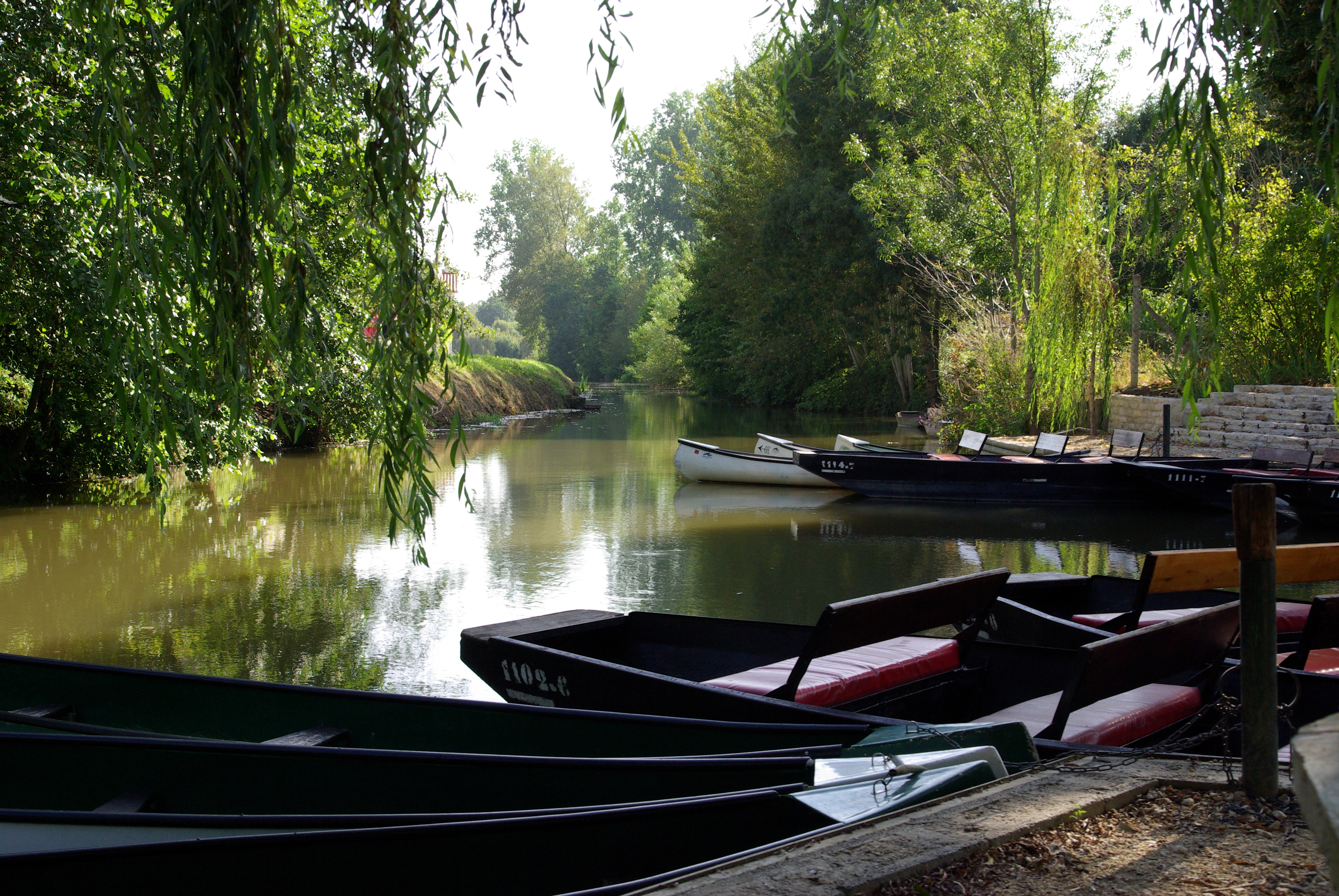 River port of Le Mazeau village, Vendée.